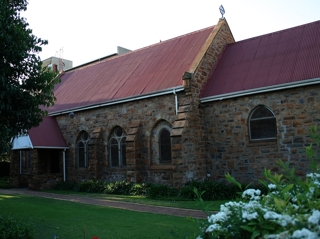 St Mary's Anglican Church, Auto Avenue, Potchefstroom This media shows a South African Protected Site with SAHRA file reference 9/2/256/0015.